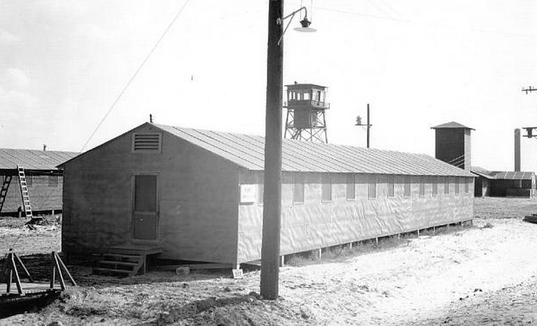 Buckingham Field Florida - Barracks - 1942